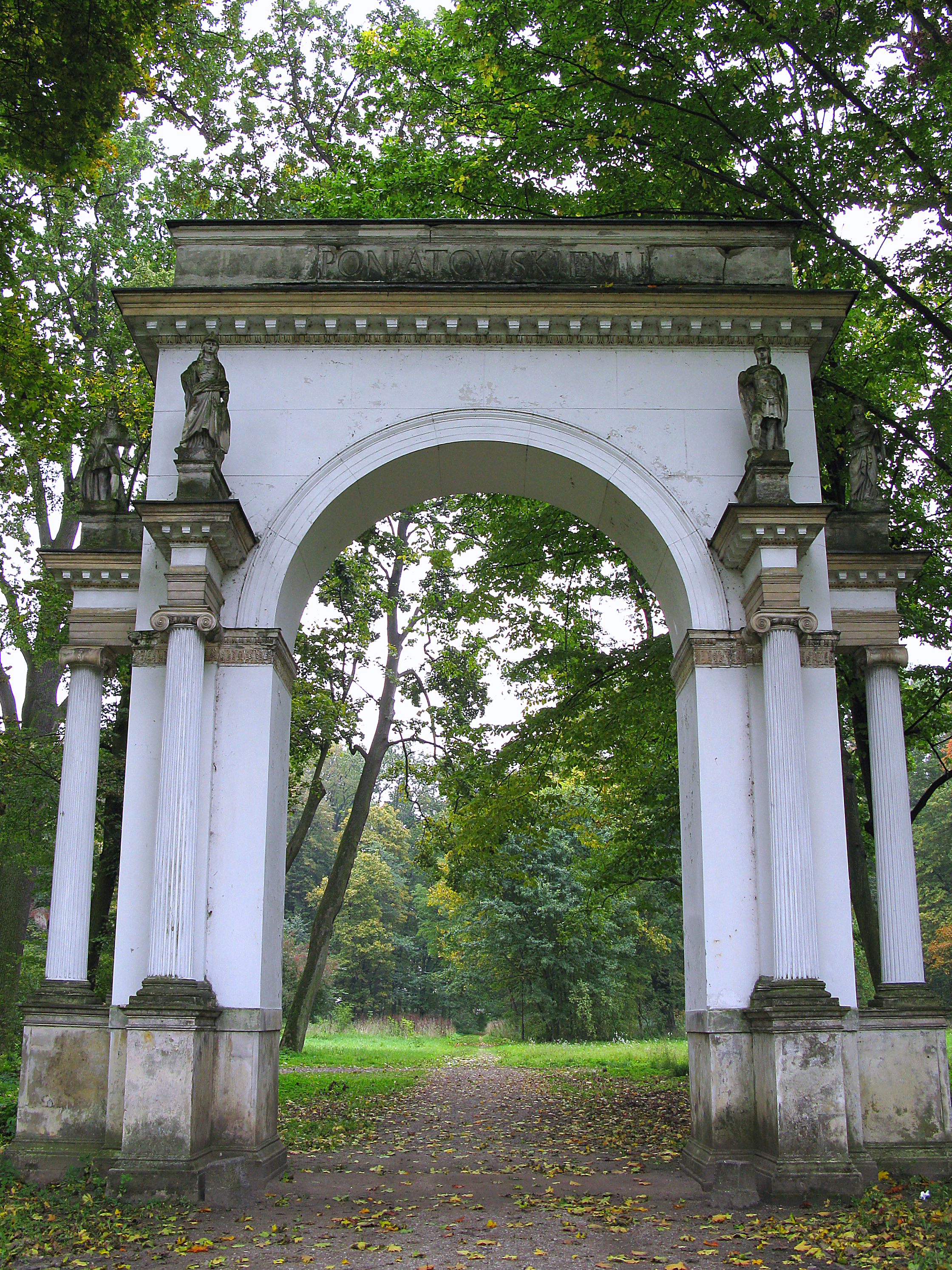 Triumphal arch commemorating Prince Joseph Poniatowski in Jabłonna